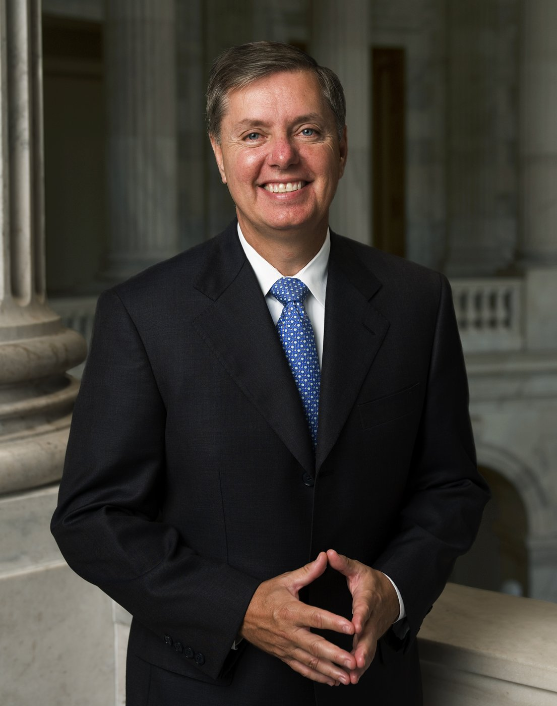 Lindsey Graham, member of the United States Senate from South Carolina.